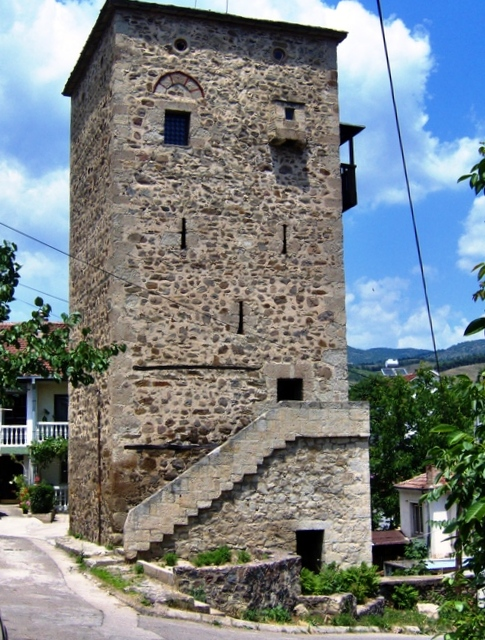 The medieval tower in Kocani, Macedonia